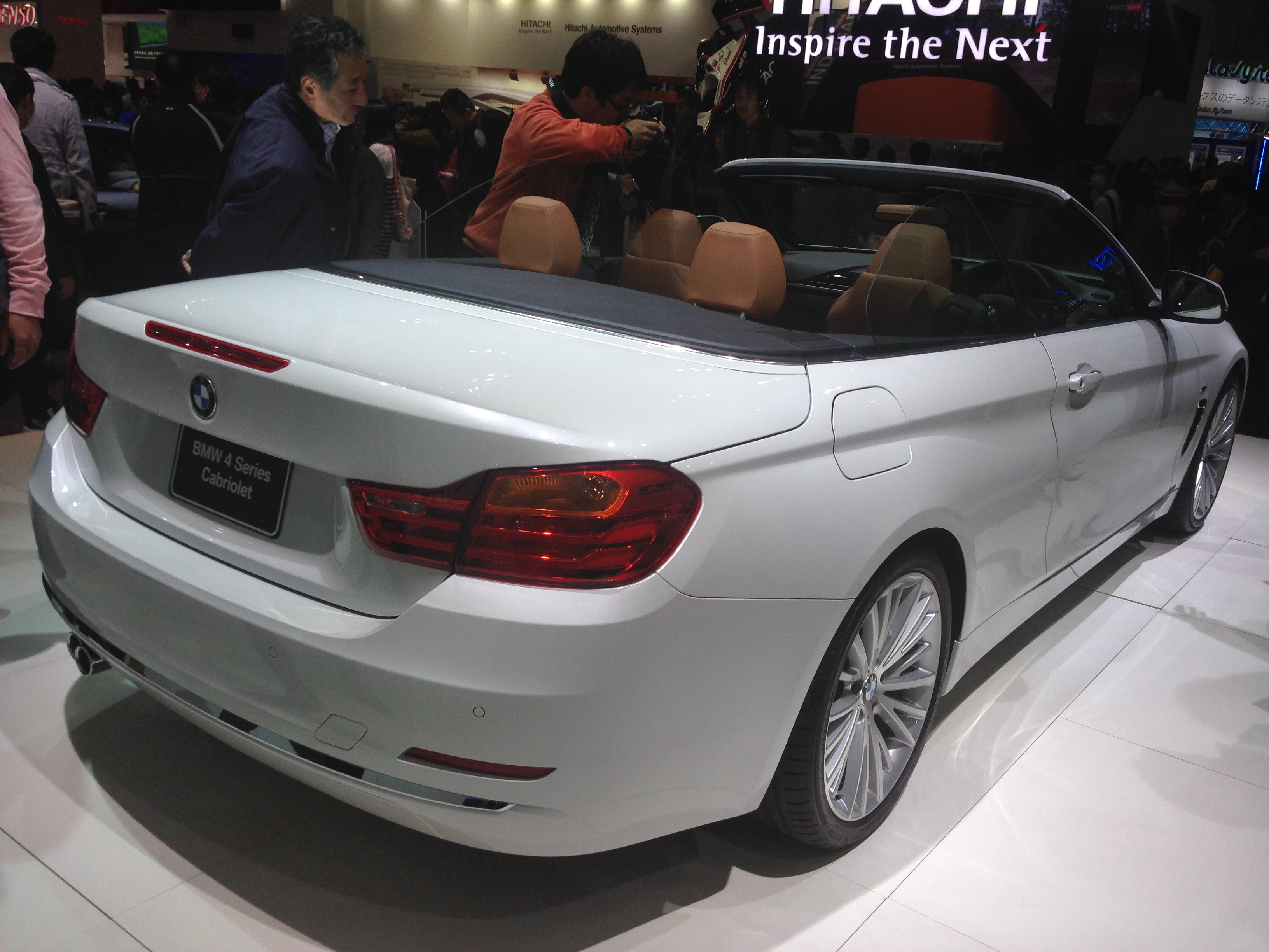 BMW 4-Series Cabriolet photographed at the Tokyo Motor Show 2013.